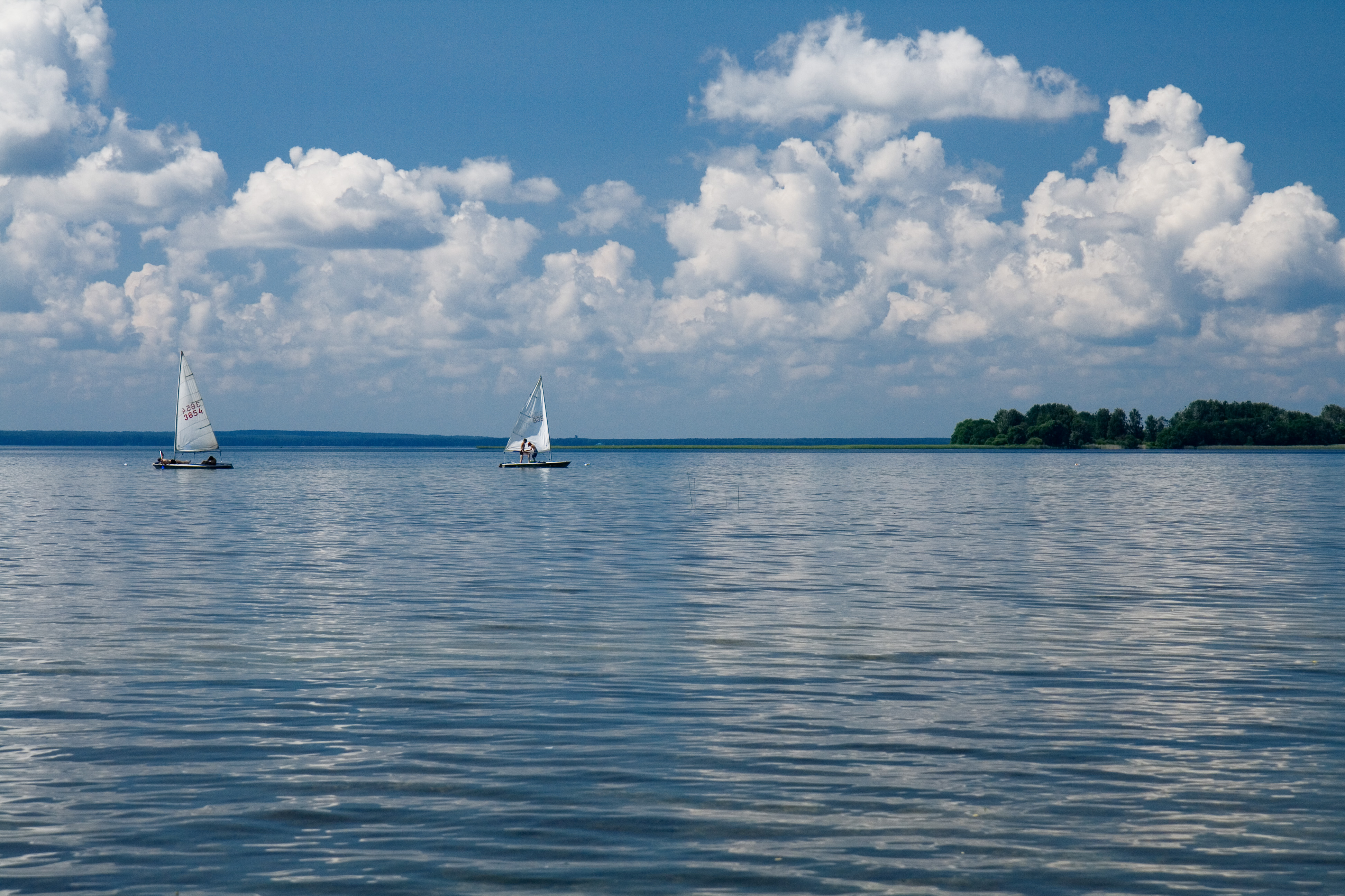 Lake Narach (Narač), Belarus. Беларуская (тарашкевіца): Возера Нарач, Беларусь.